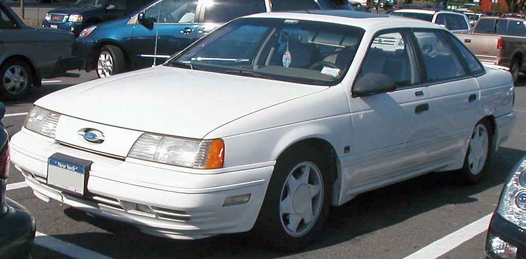 1989-1991 Ford Taurus SHO photographed in USA.